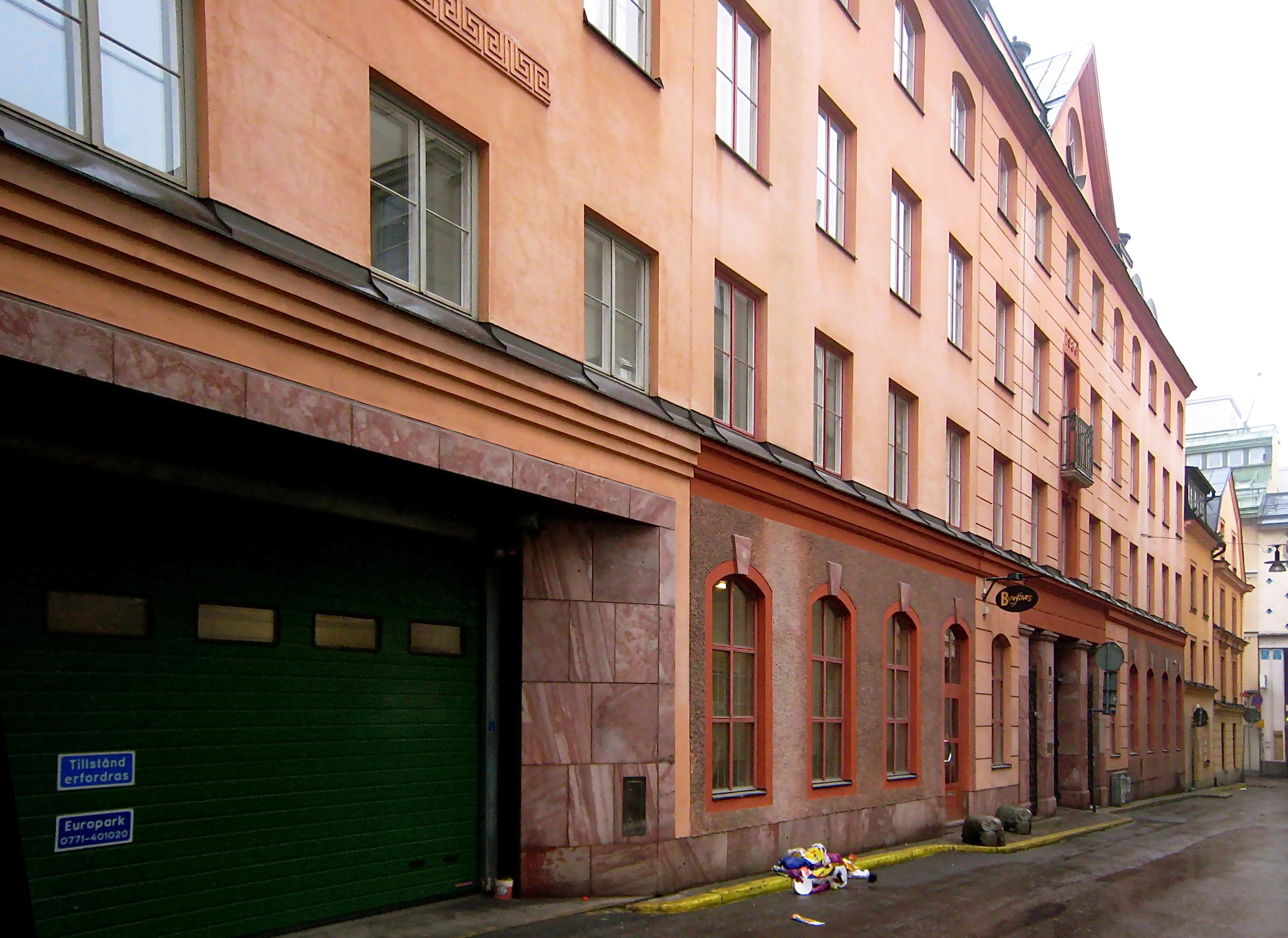 Bryggaren 16